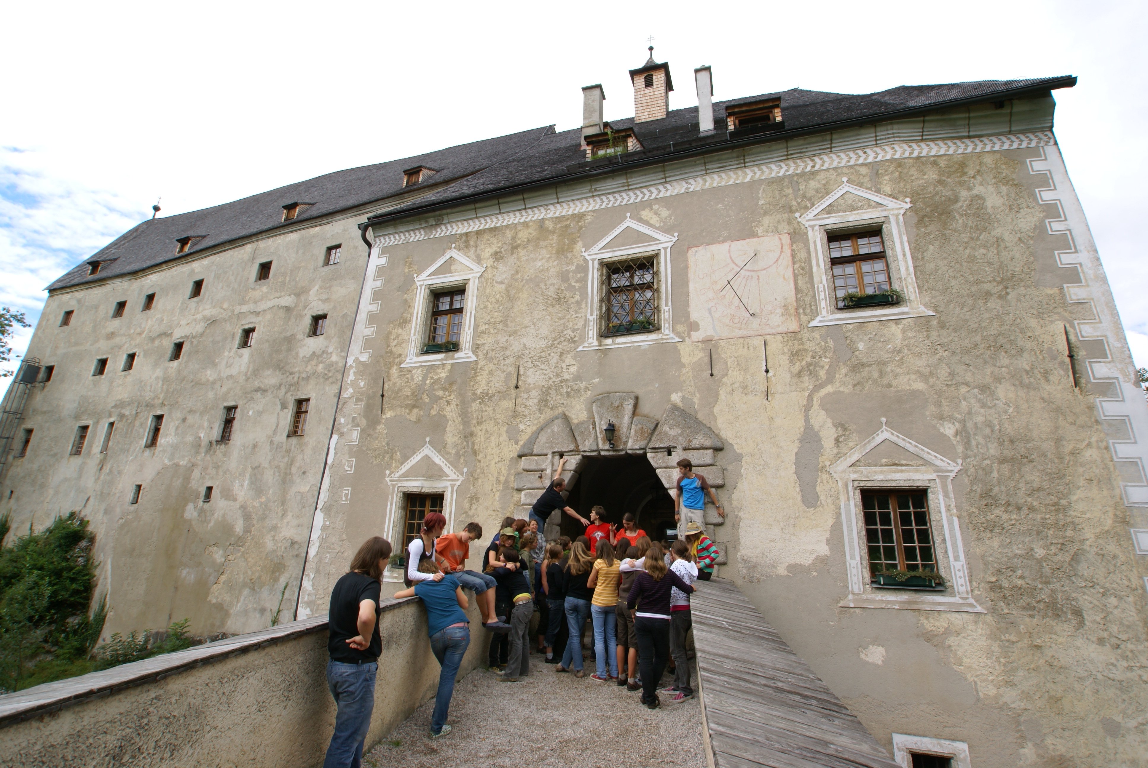 Castle Altpernstein, portal and visitors